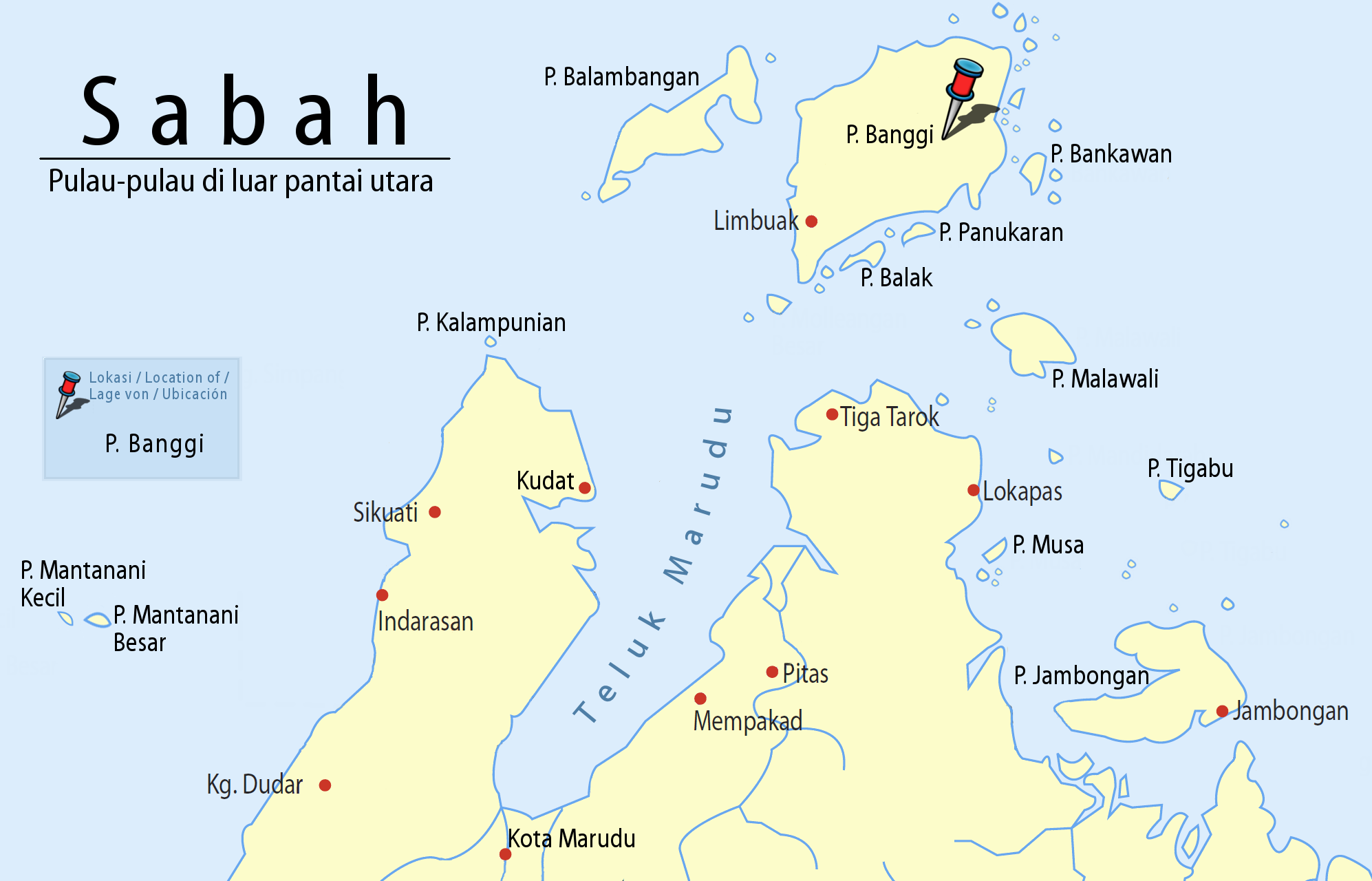 Sabah: Scheme of Islands off the northern coast / Pulau Banggi